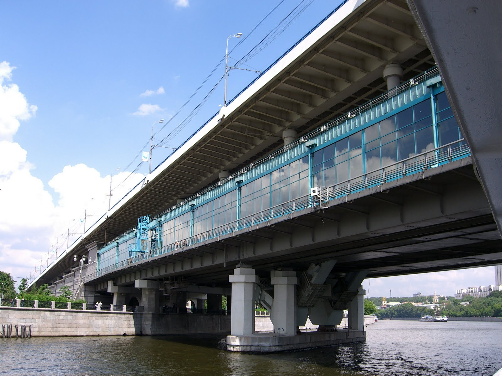 Gagarinsky District, Moscow, Russia